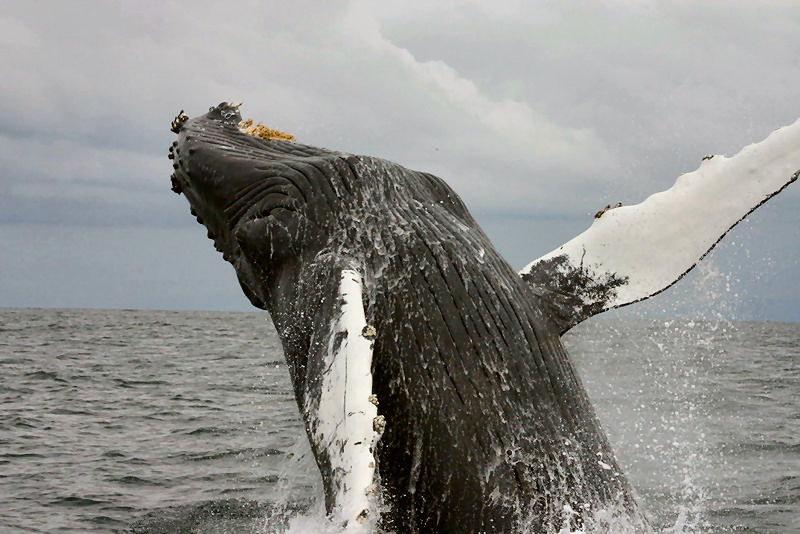 a jumping humpback whale